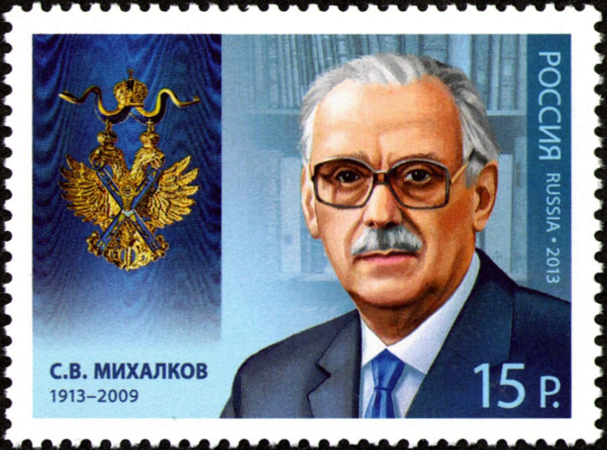 Recipients of the Order of St. Andrew the Apostle the First-Called (the ongoing series, issue III). Sergey Mikhalkov[1] (1913–2009), a Soviet Russian poet, prose writer, dramatist and a public figure. There depicted the badge of the Order of St. Andrew on the left. The stamp of Russia, 15.00 Rubles, 9 October 2013, PTC Marka Catalogue No 1737, Michel No 1969. Coated paper. Offset printing, varnish coating. Perforation: comb 12×11½. Size of the stamp: 50×37 mm. Print run: 385,000.